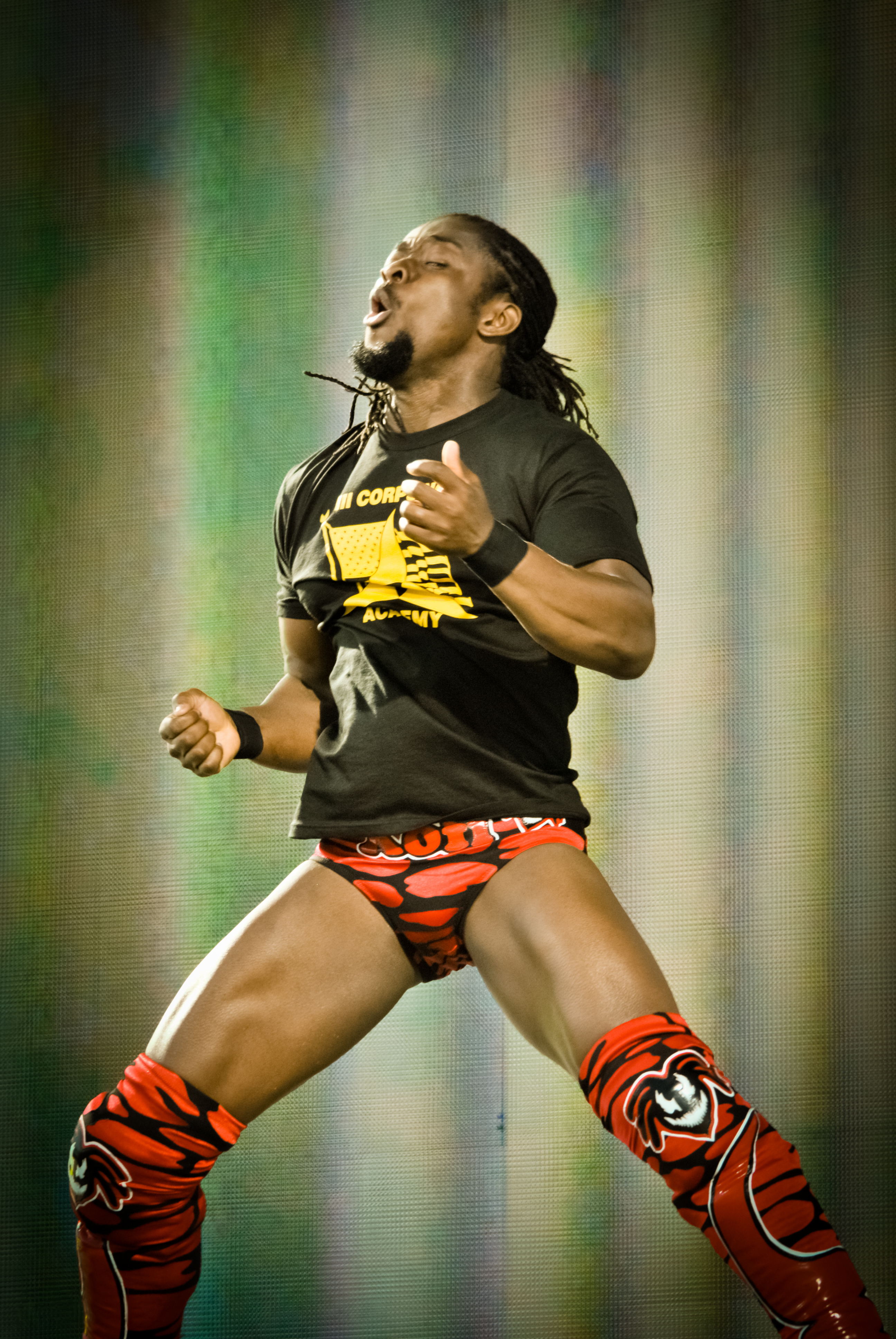 Kofi Kingston at WWE's Tribute to the Troops show in Fort Hood, Texas, on December 11, 2010.